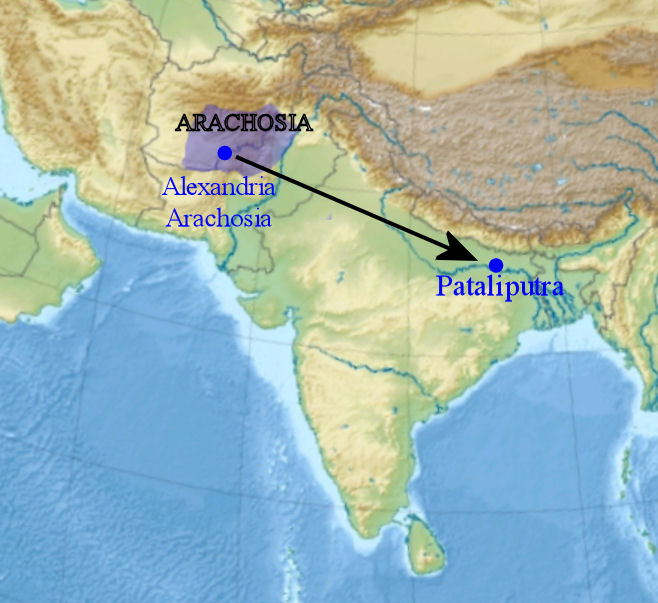 Embassy of Megasthenes